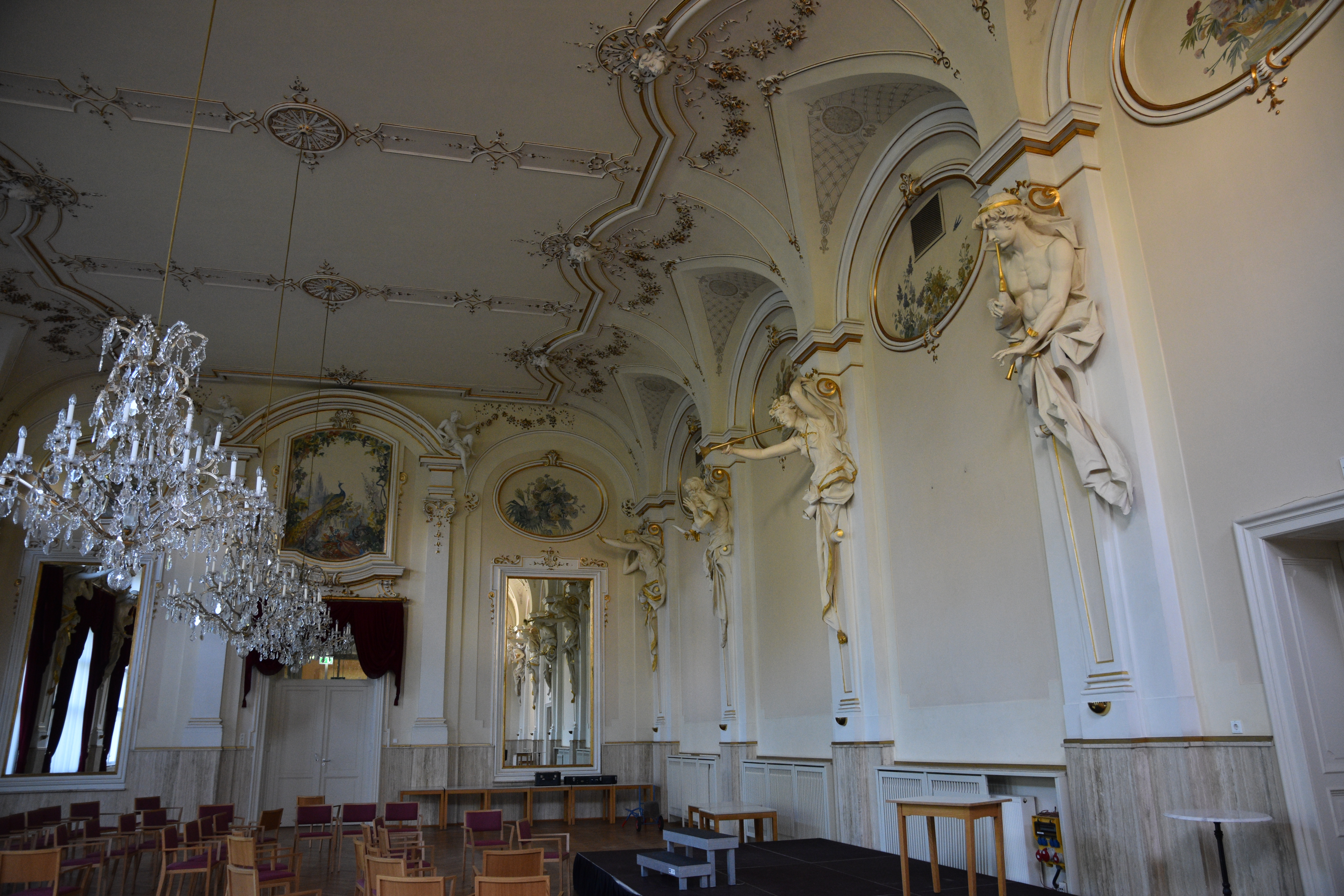 Bad Gleichenberg Hotel Mailand Mailandsaal